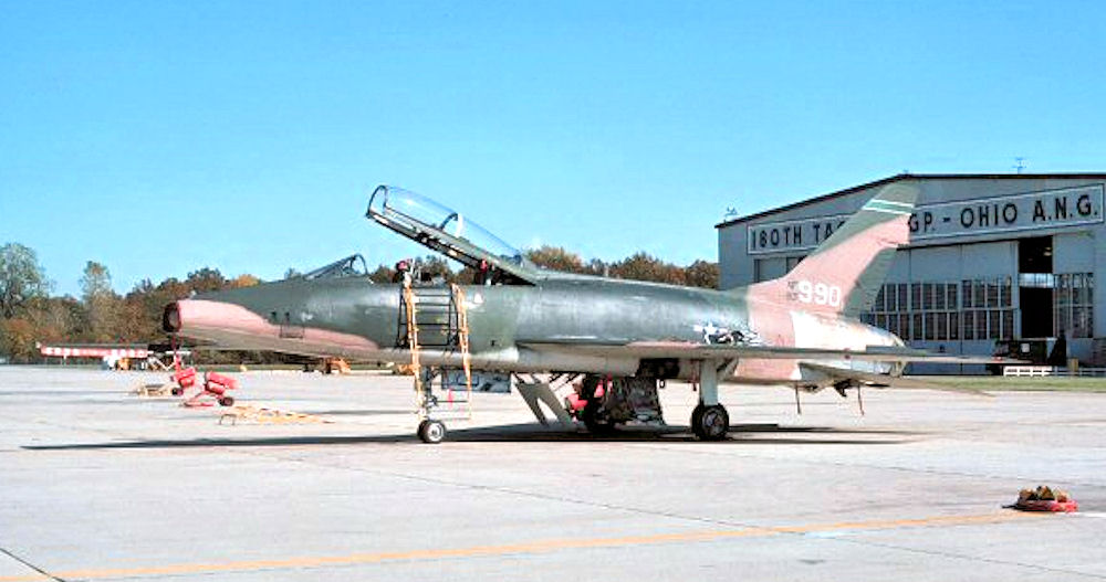 112th Tactical Fighter Squadron - North American F-100F-15-NA Super Sabre 56-3990 Retired to AMARC on Oct 1, 1979 as FE0618. Now on display at Burnet, Texas with 69-990 on its tail.